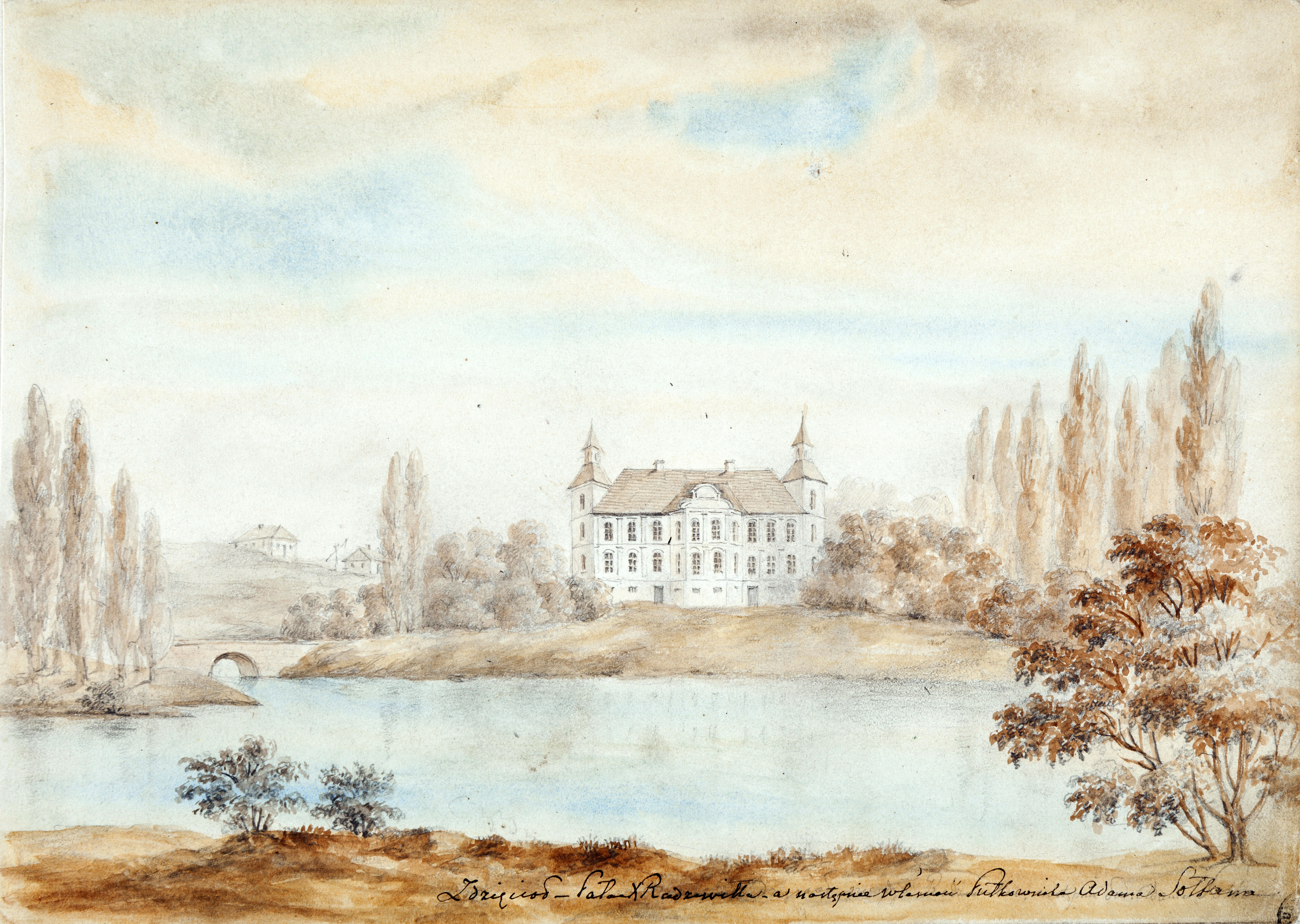 Ździecieł, Napaleon Orda